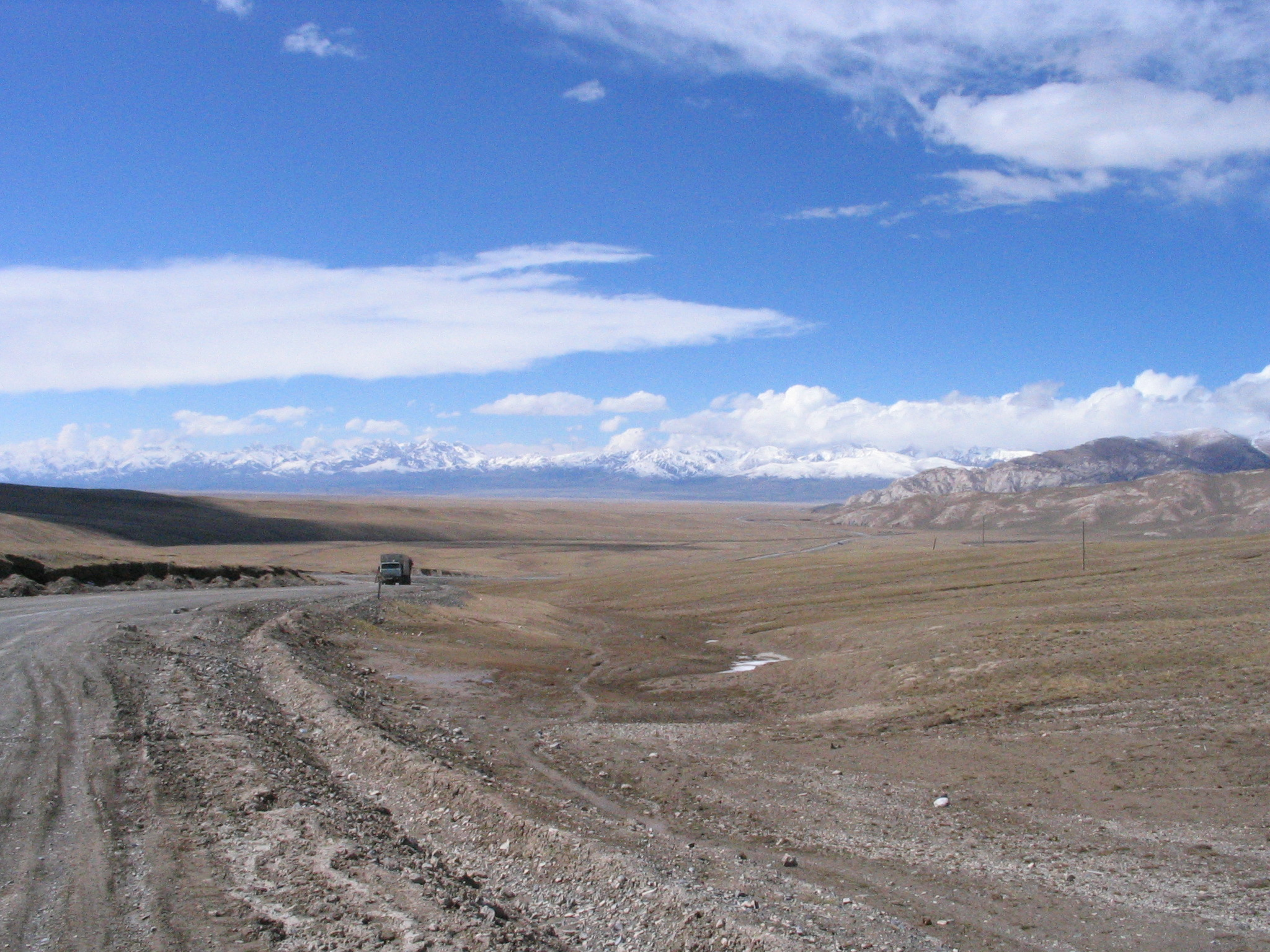 Across the Torugart Pass from Kashgar to Naryn